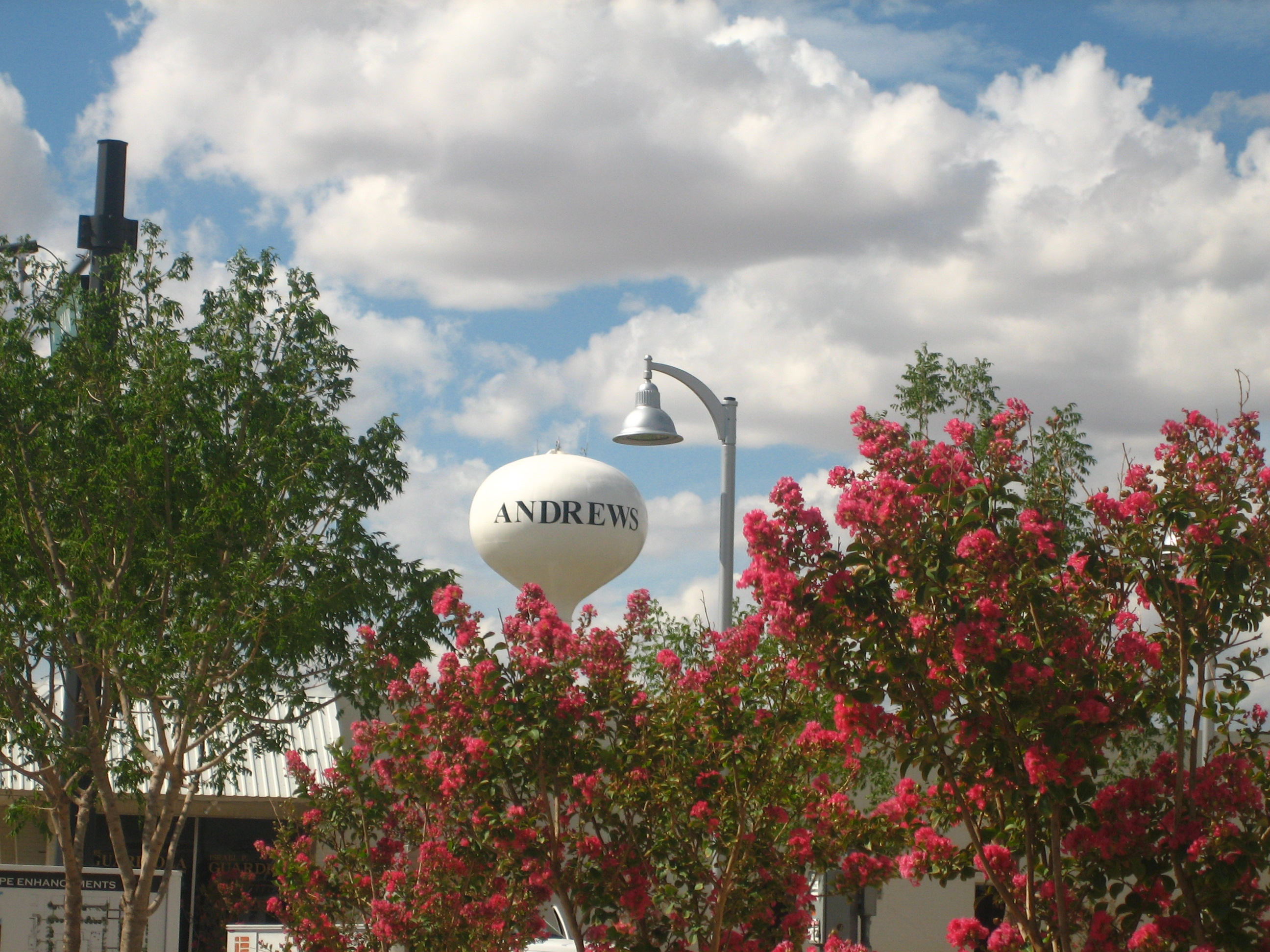 Andrews water tower photographed through trees near a building; Flowering Lagerstroemia